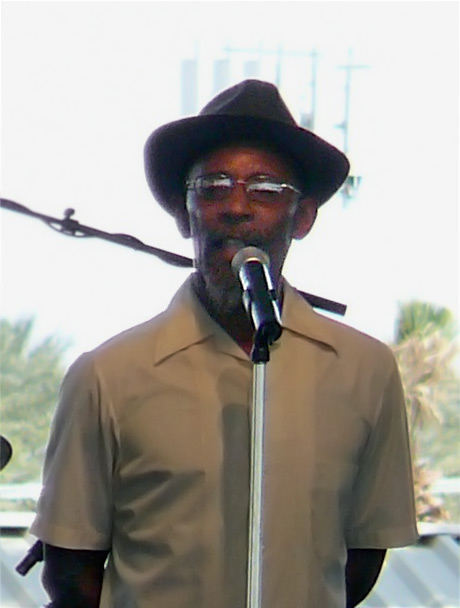 Linton Kwesi Johnson (LKJ) at Coachella Valley Music and Arts Festival 2008